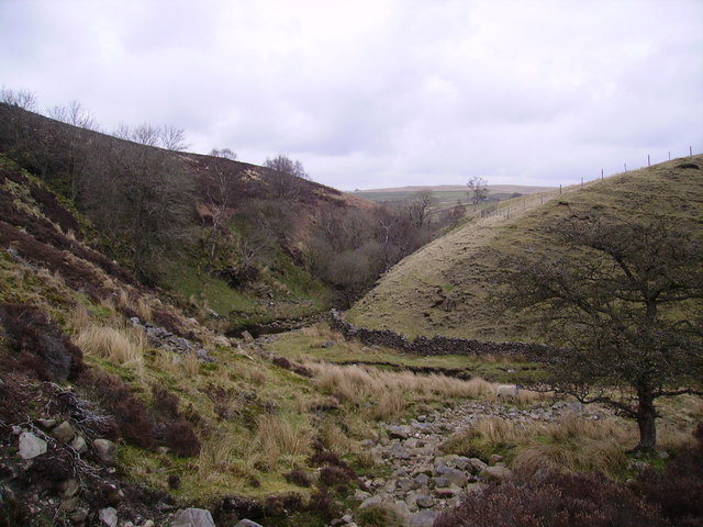 Keasden Beck The spot on Clapham Common where Rough Gutter meets Keasden Beck